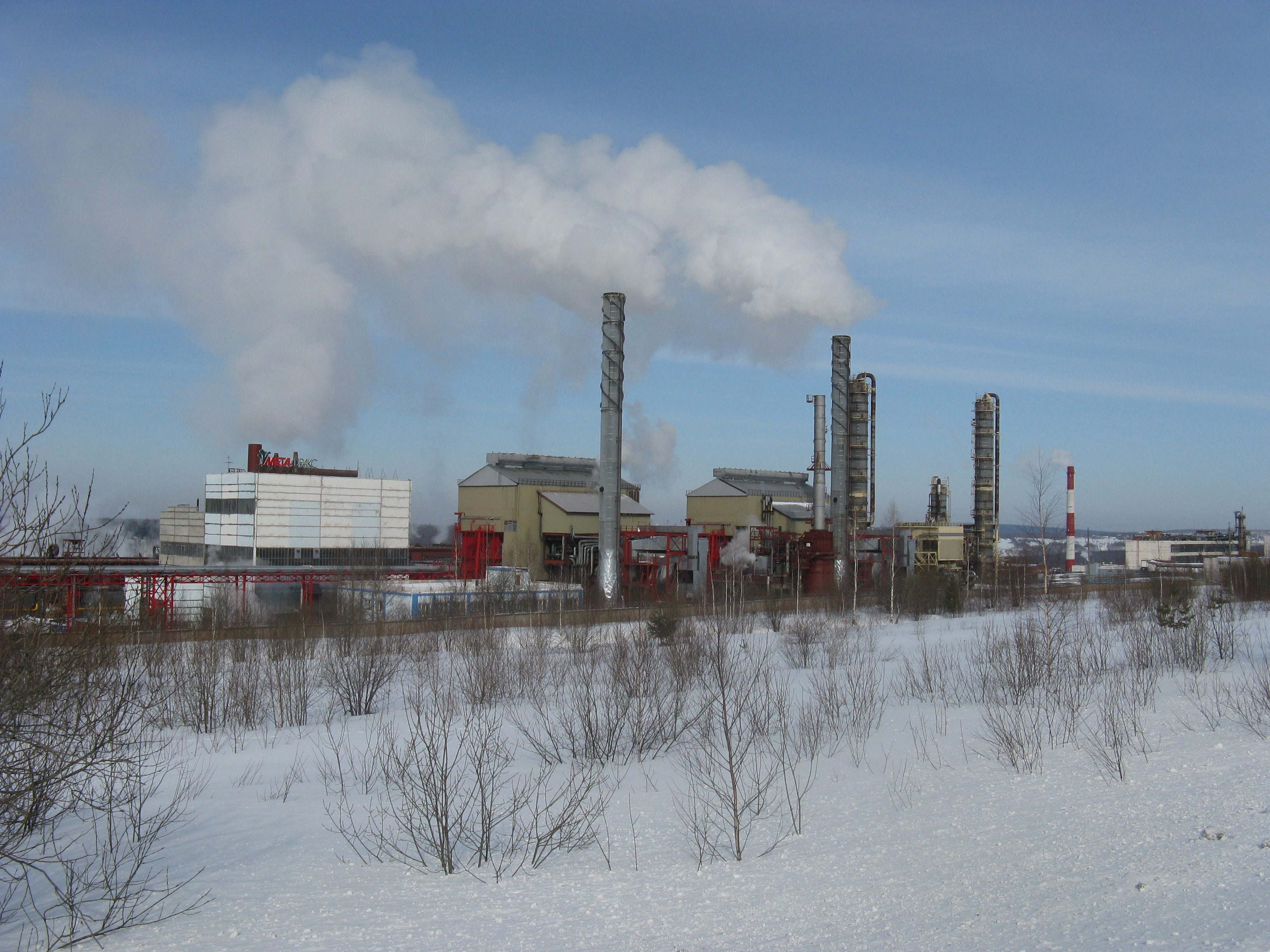 Chemical plant "Metafrax" in Gubaha